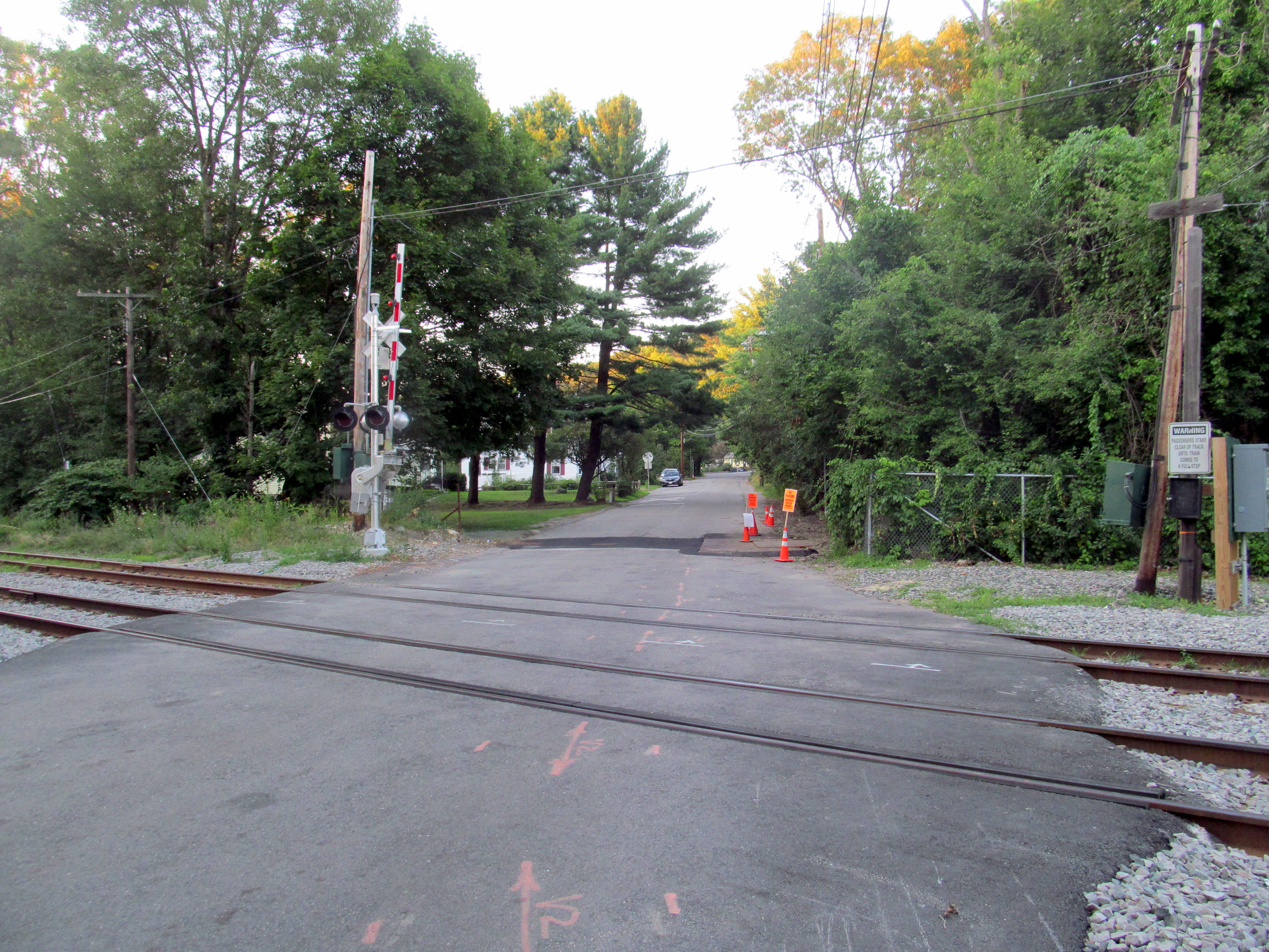 Hastings station - a level crossing with minimal signage - in August 2015